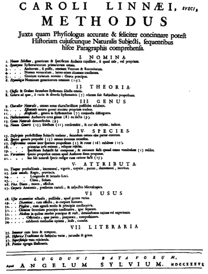 Methodus Juxta Quam Physiologus Accurate & feliciter concinnare potest Historiam cujuscunque Naturalis Subjecti, sequentibus hisce Paragraphis comprehensa